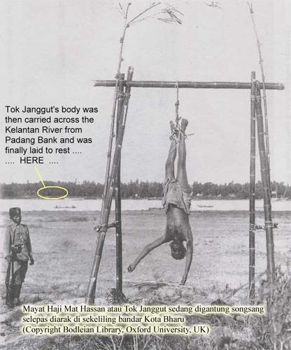 Tok Janggut's body was then carried across the Kelantan River from Padang Bank and was finally laid to rest HERE.